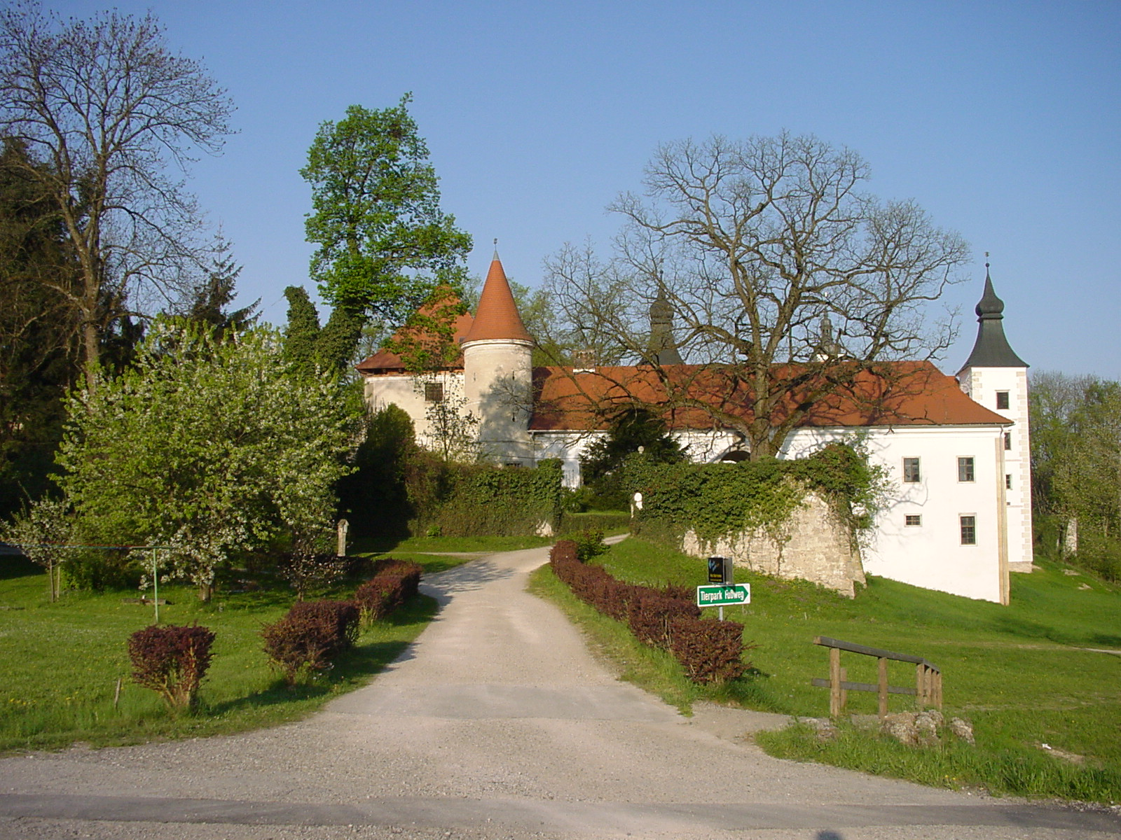 Salaberg Castle in the morning sun, from the east view.